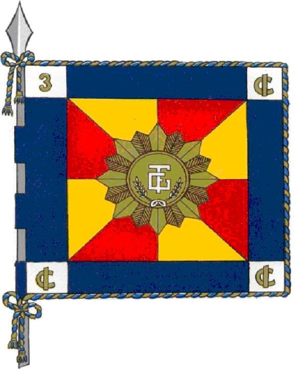 Guião da Companhia Independente nº 3 da antiga Guarda Fiscal